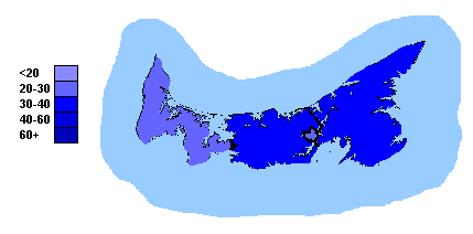 Map made by uploader (User:Earl Andrew); see [1] (question about source) and [2] (response).